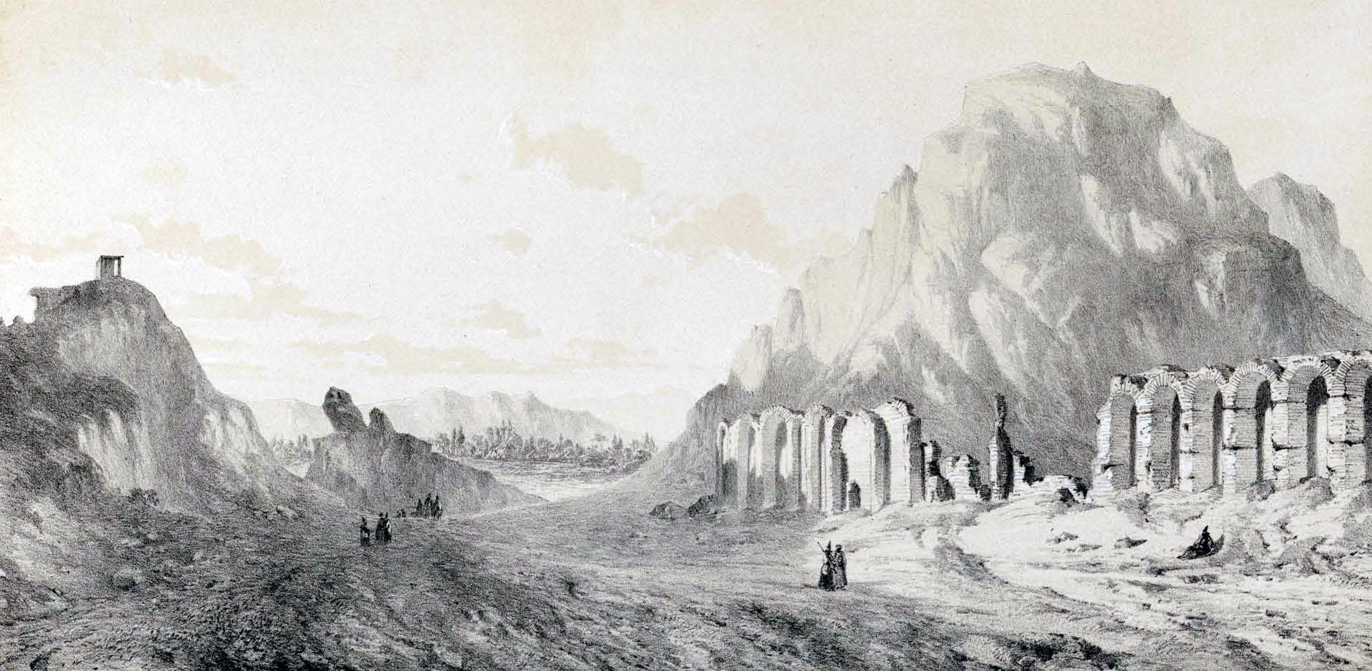 Ruins of the Palace Farahabad , near Isfahan